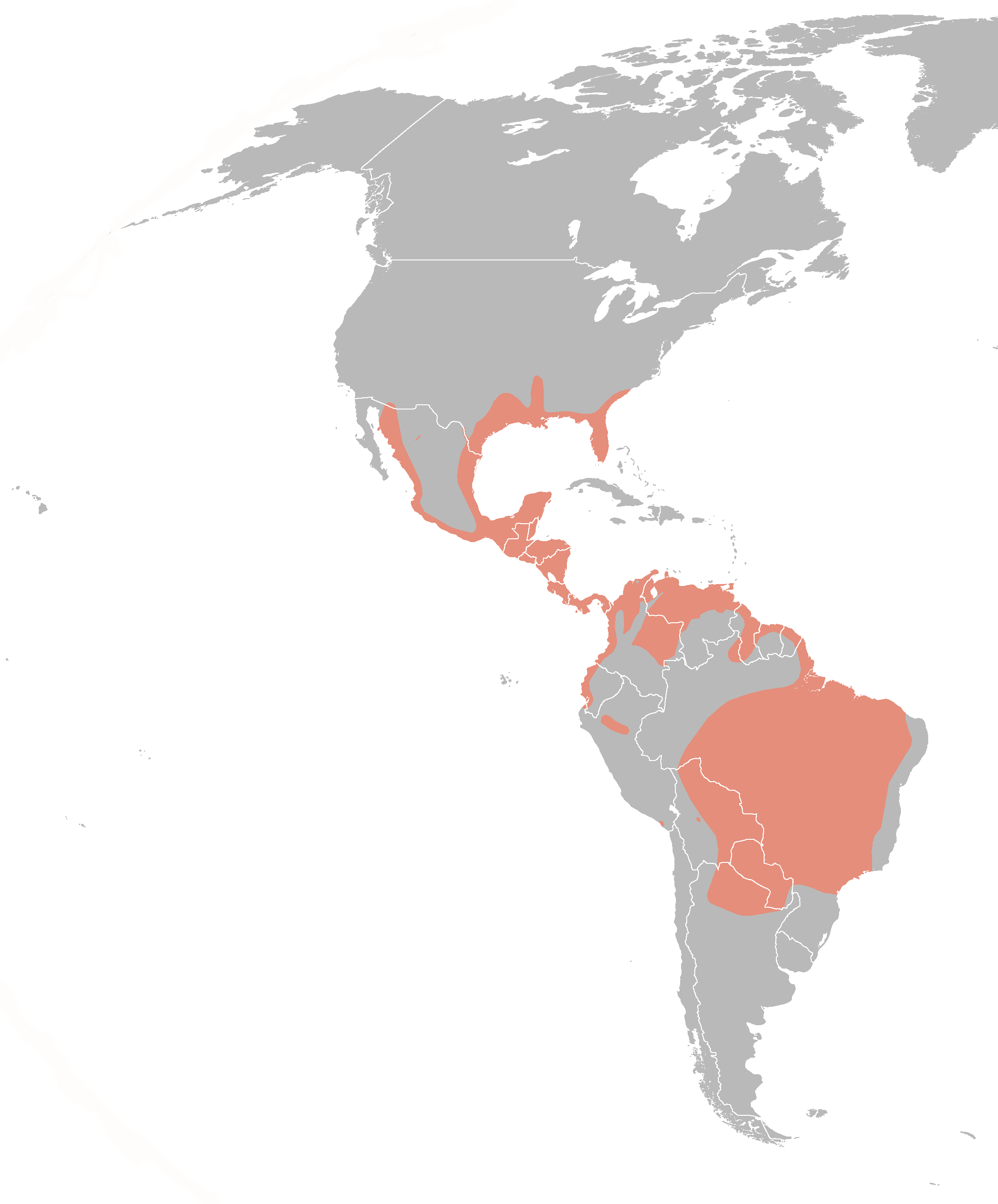 Black-bellied Whistling Duck(Dendrocygna autumnalis) distribution map